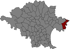 Location of Cadaqués in Alt Empordà